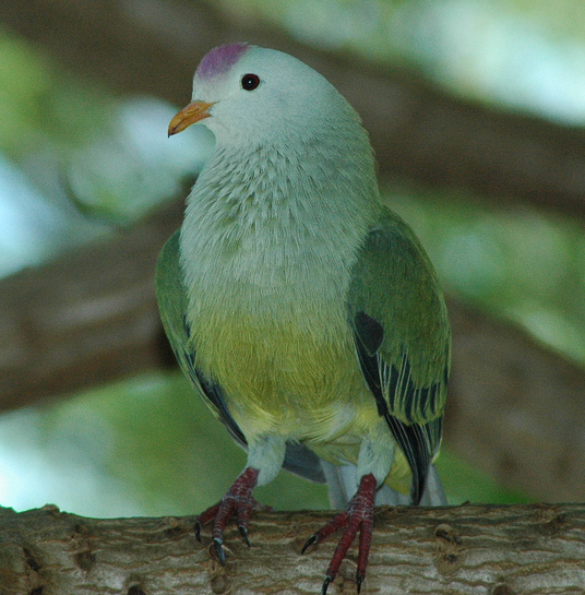 "The O'o, a native fruit dove to the Tuamotu Islands. Atoll Fruit-dove, Ptilinopus coralensis, O'o (north and south Tuamotu), Kuku (Mangareva). 20 cm. Widespread in the Tuamotu, the Fruit-dove of this archipelago disappeared from the Gambier where it was formerly present. It lives the forests of the atolls, where it eats the leaves of the "tafano" or "kahaia" (Guettardia speciosa), tree with odorous flowers. It also eats fruits and seeds."